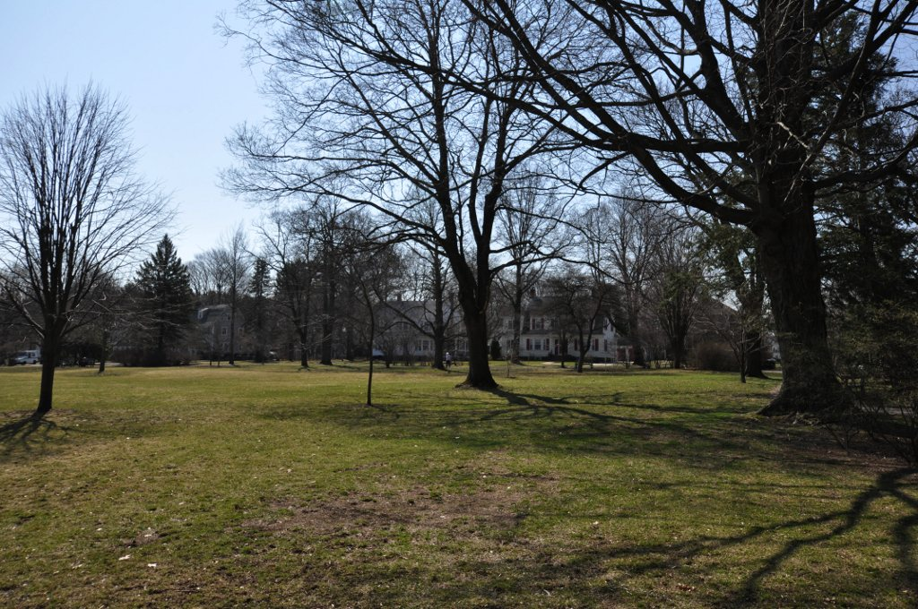 Memorial Park in North Andover, Massachusetts, part of the Tavern Acres Historic District.